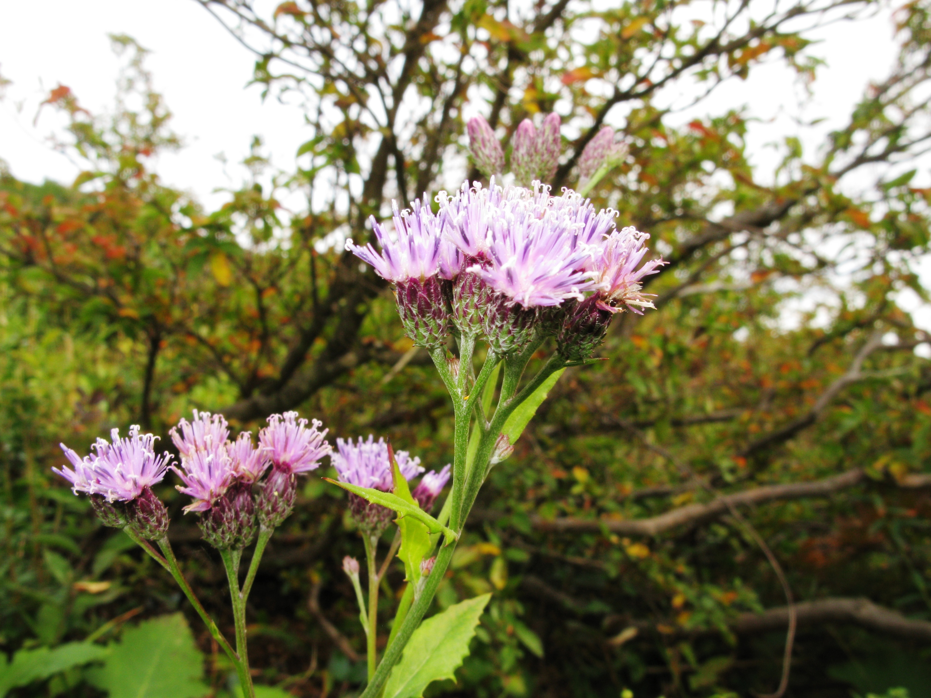 Saussurea ussuriensis, Aizu area, Fukushima pref., Japan